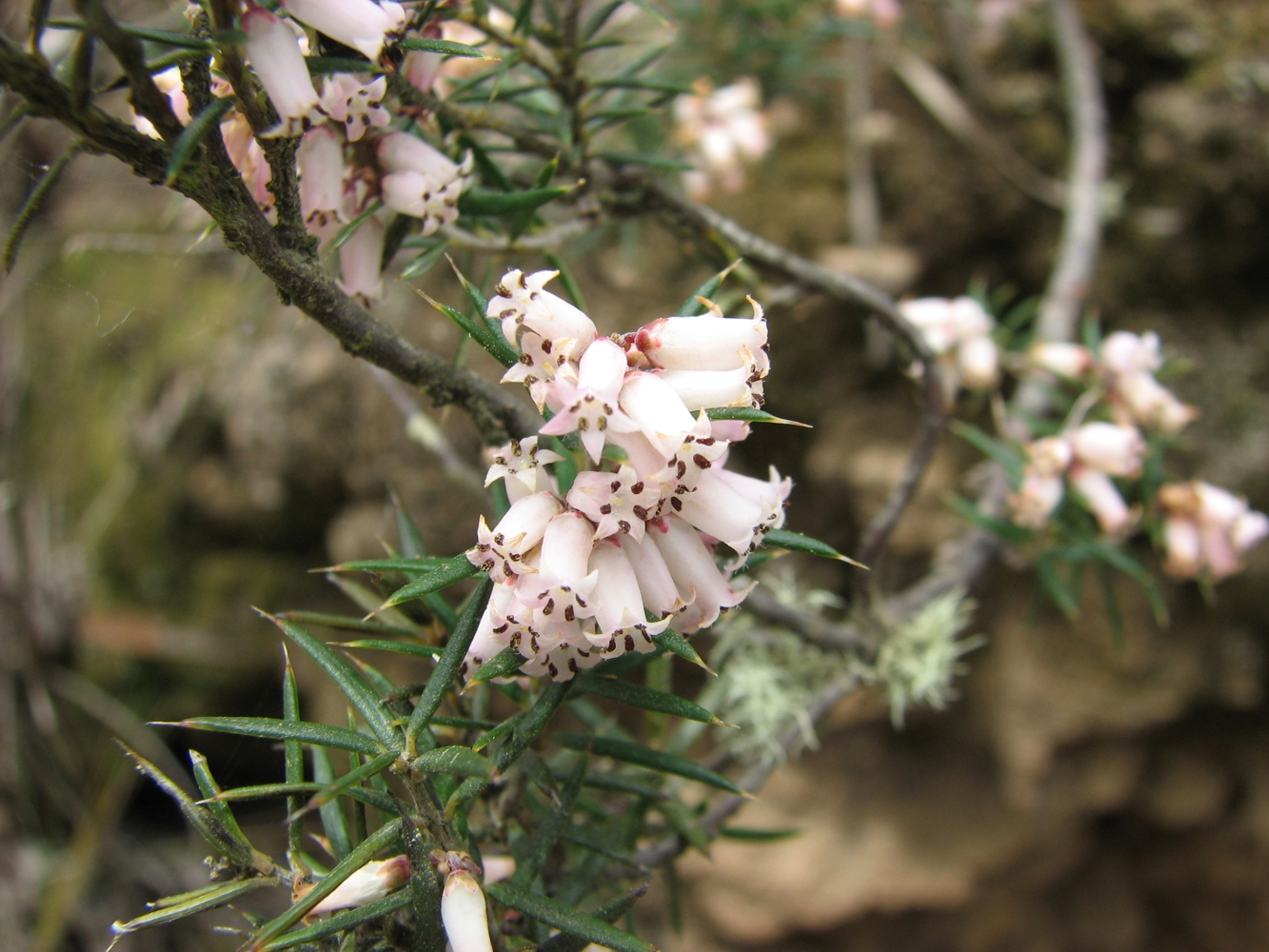 Lissanthe strigosa subsp. subulata, Enfield State Park, Victoria, Australia